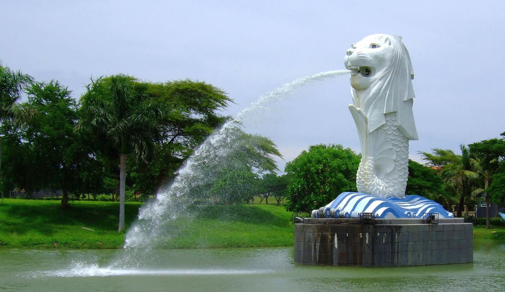 Merlion Citra Raya, Surabaya